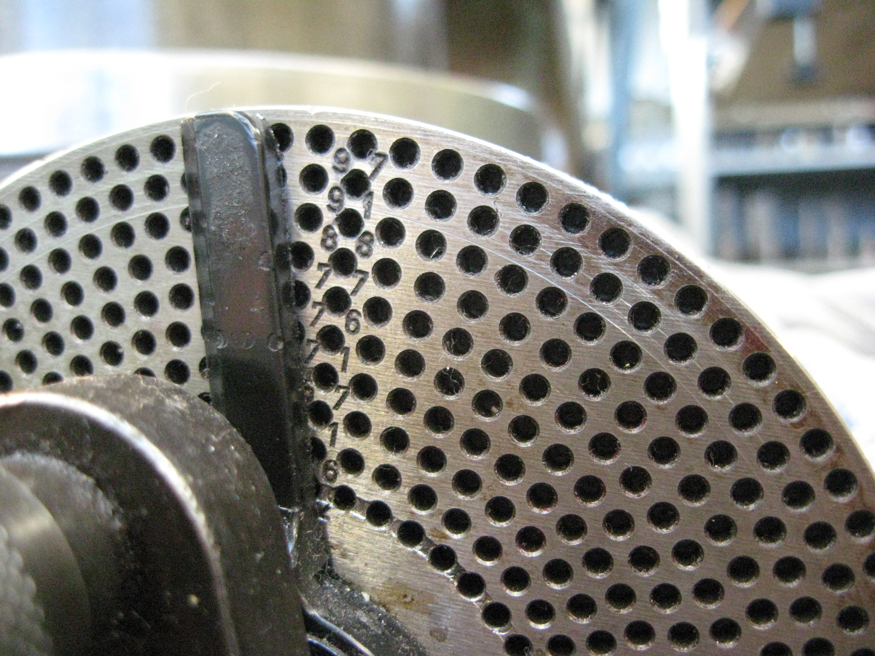 indexing plate